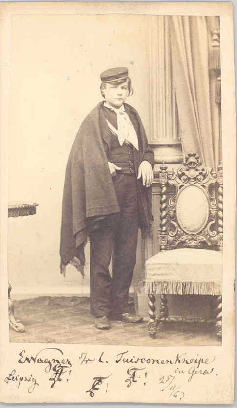 Member of the student fraternity Alemannia Leipzig